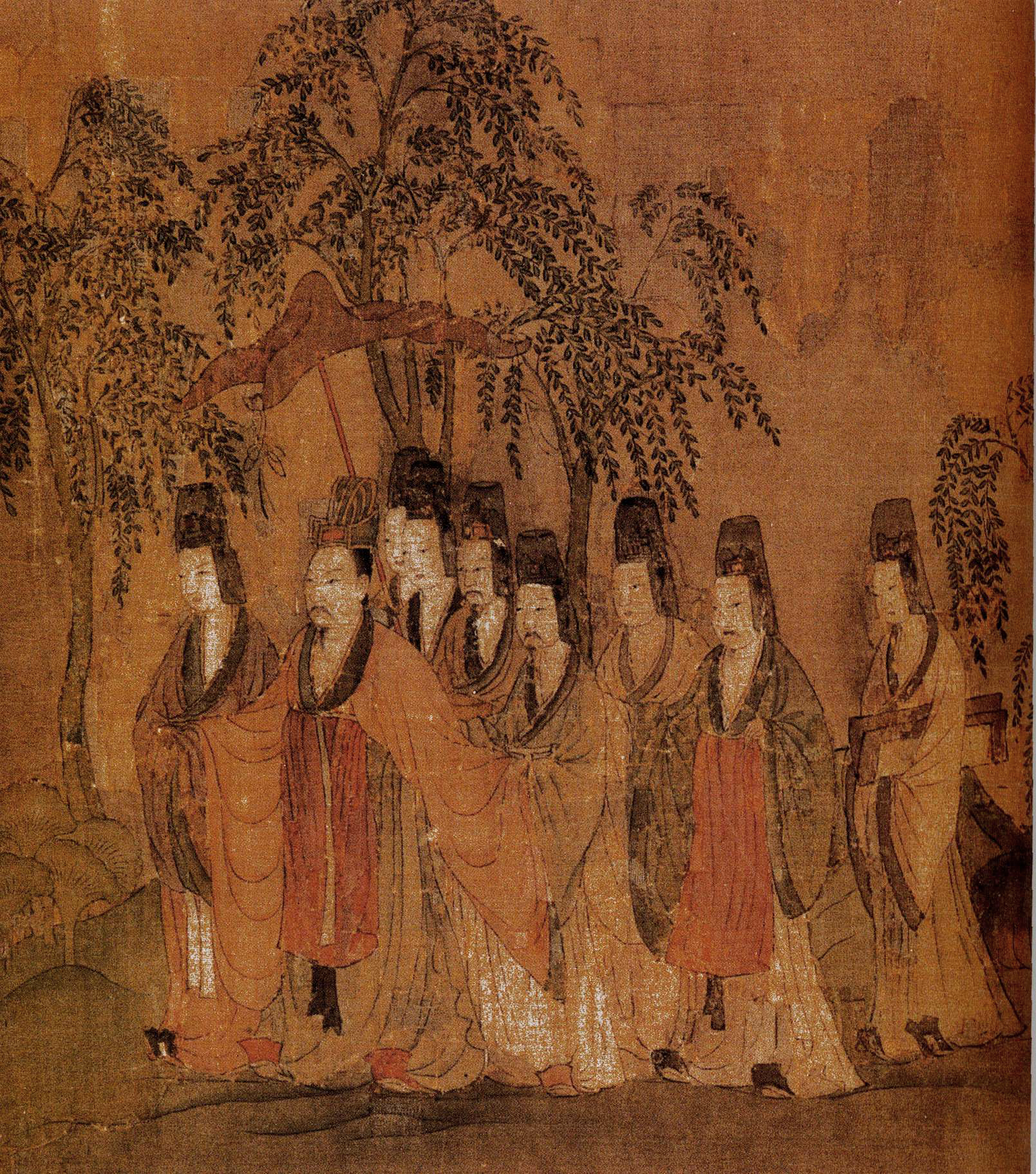 "Godess of Luo Liver"(in a part), Gu Kaizhi, Jin Dynasty; ink and colours on silk, ens.